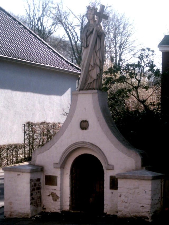 Helen's Well in Helenabrunn, Viersen, Germany